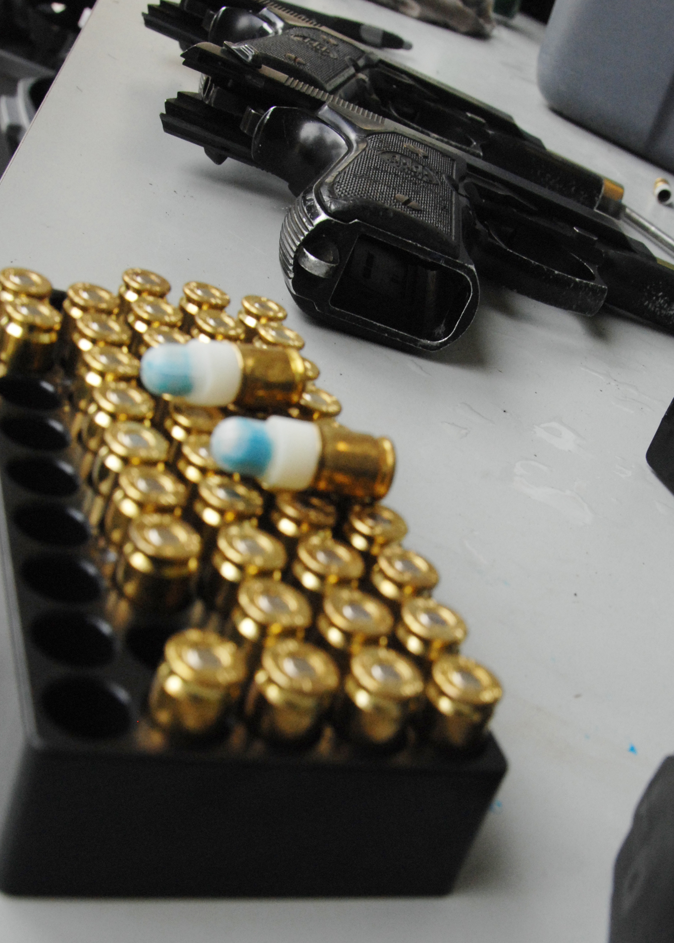 Description of taken from caption in article at entitled "Commando Warrior adds realistic combat training with simunitions" by Senior Master Sgt. Steven Bliss 736th Security Forces Squadron M-9 Simunition configured training weapons and colored FX rounds were used during the Commando Warrior simunitions training course at Andersen Air Force Base, Guam July 30. The five day course was hosted by the 736th Security Forces Squadron and was attended by Security Forces Airmen across the Pacific Air Forces. (U.S. Air Force photo by Airman 1st Class Nichelle Griffiths)